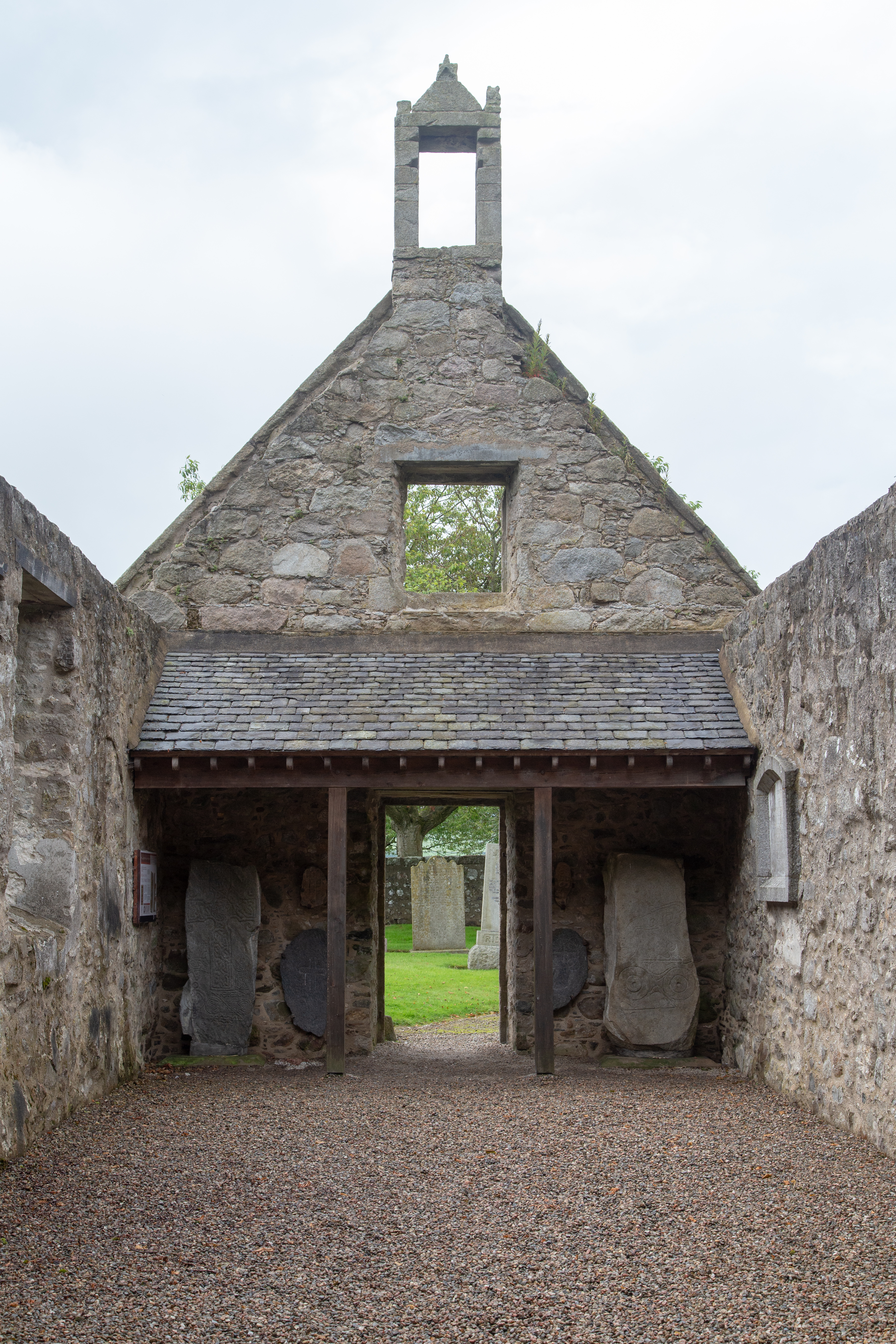 St Fergus's Church, Dyce